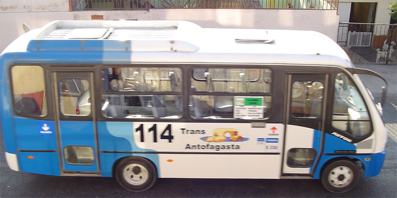 Metalbus Maxibus Astor or Maxibus Astor bus with Mercedes-Benz LO 712 or LO 914 chassis in Antofagasta, Chile. Microbús de la locomoción colectiva. Antofagasta, Chile. Source: [1] Date: 27/10/2005 Author: Marcos Escalier